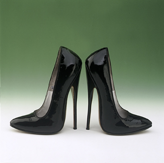 Black Patent Leather Fetish Shoes 1973 - 1977 These shoes have a 7-inch stiletto heel and are a size 11